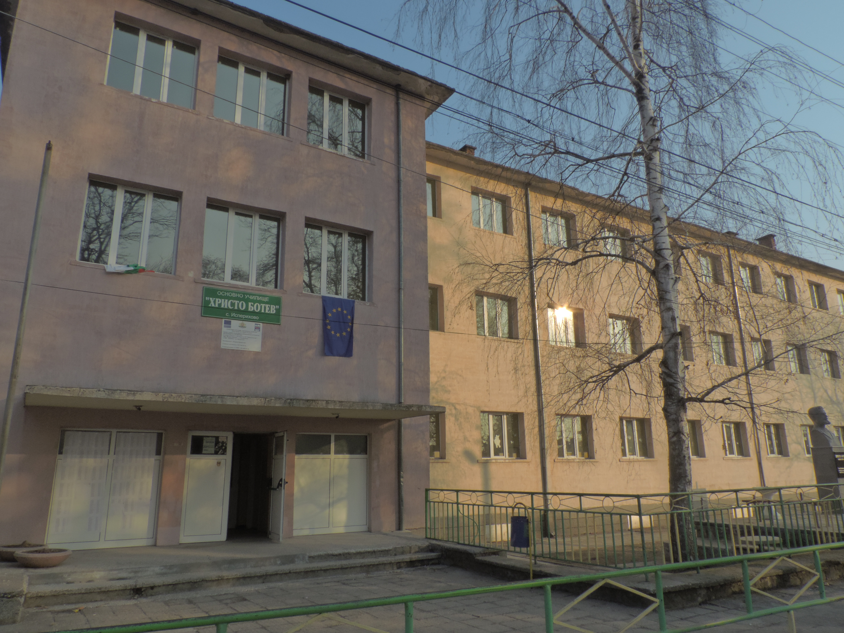 Elementary school "Hristo Botev" in village Isperihovo, Bratsigovo Municipality, Pazardzhik Province, Bulgaria.